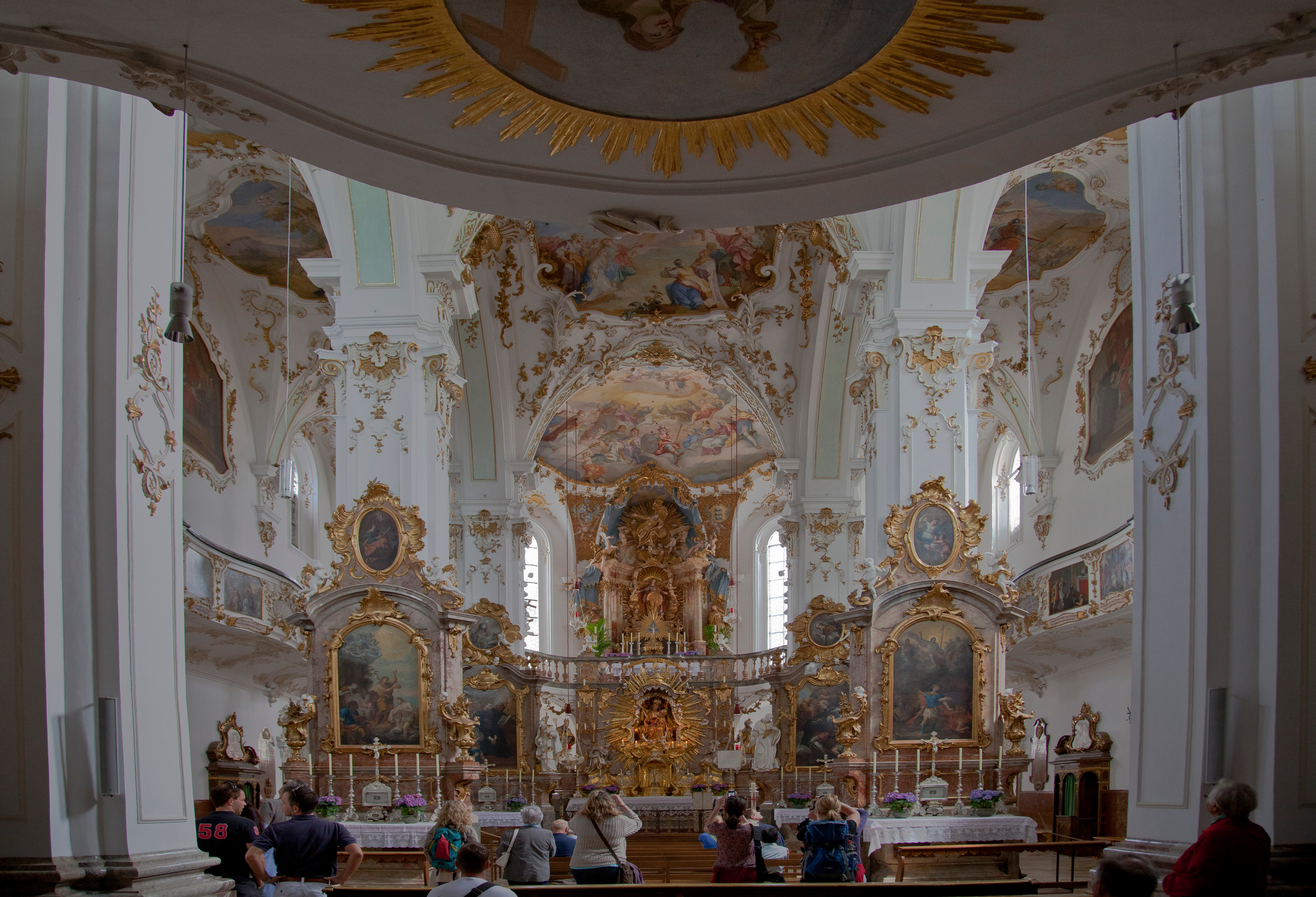 Monastery of Andechs, Germany